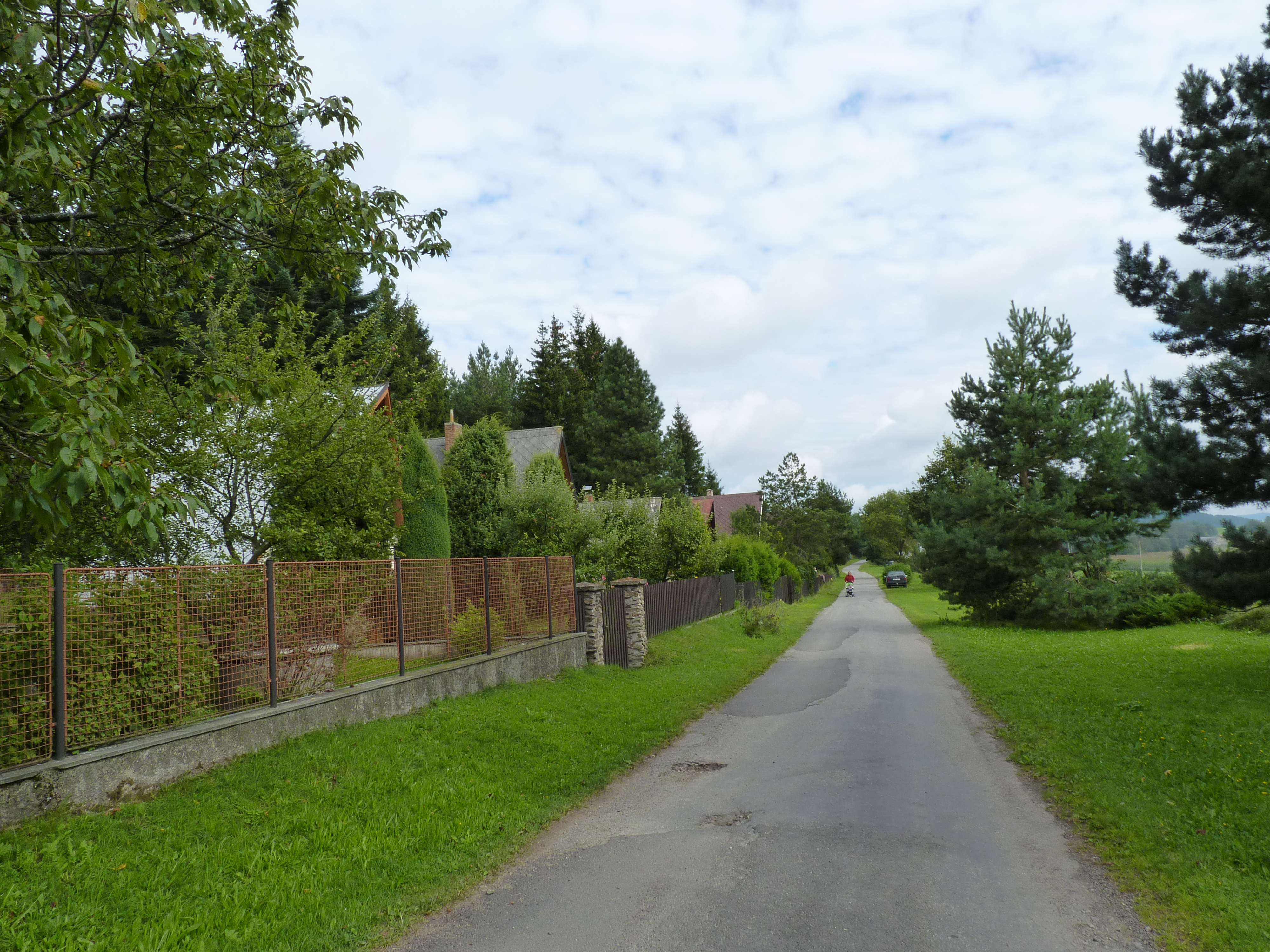 Cottages in Vrbice, Prachatice District, South Bohemian Region, Czech Republic